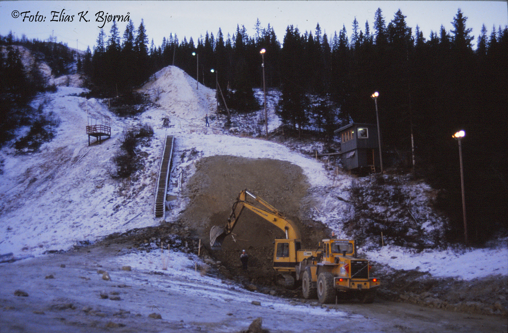 Anleggsarbeid 1987. Foto Elias K. Bjørnå